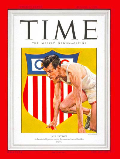 Time magazine, Volume 52 Issue 5. Front cover is an illustration of Mel Patton.